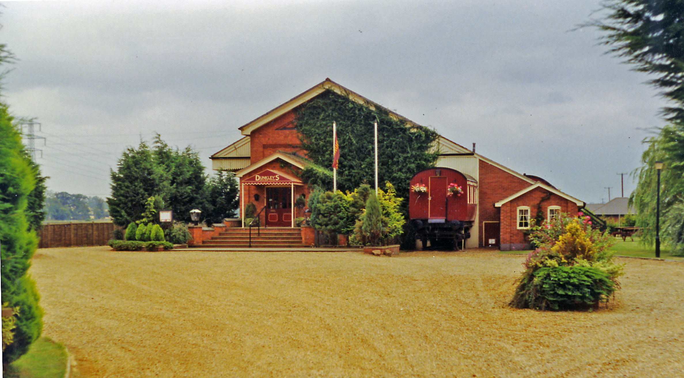 Former Castle Ashby & Earl's Barton station, now Dunkley's Restaurant, 1993. View westward, towards Northampton: ex-LNW Northampton - Wellingborough line. The station was closed 4/5/64 (goods 1/2/65), but the line survived until 1972. The Goods station became Dunkley's Restaurant.